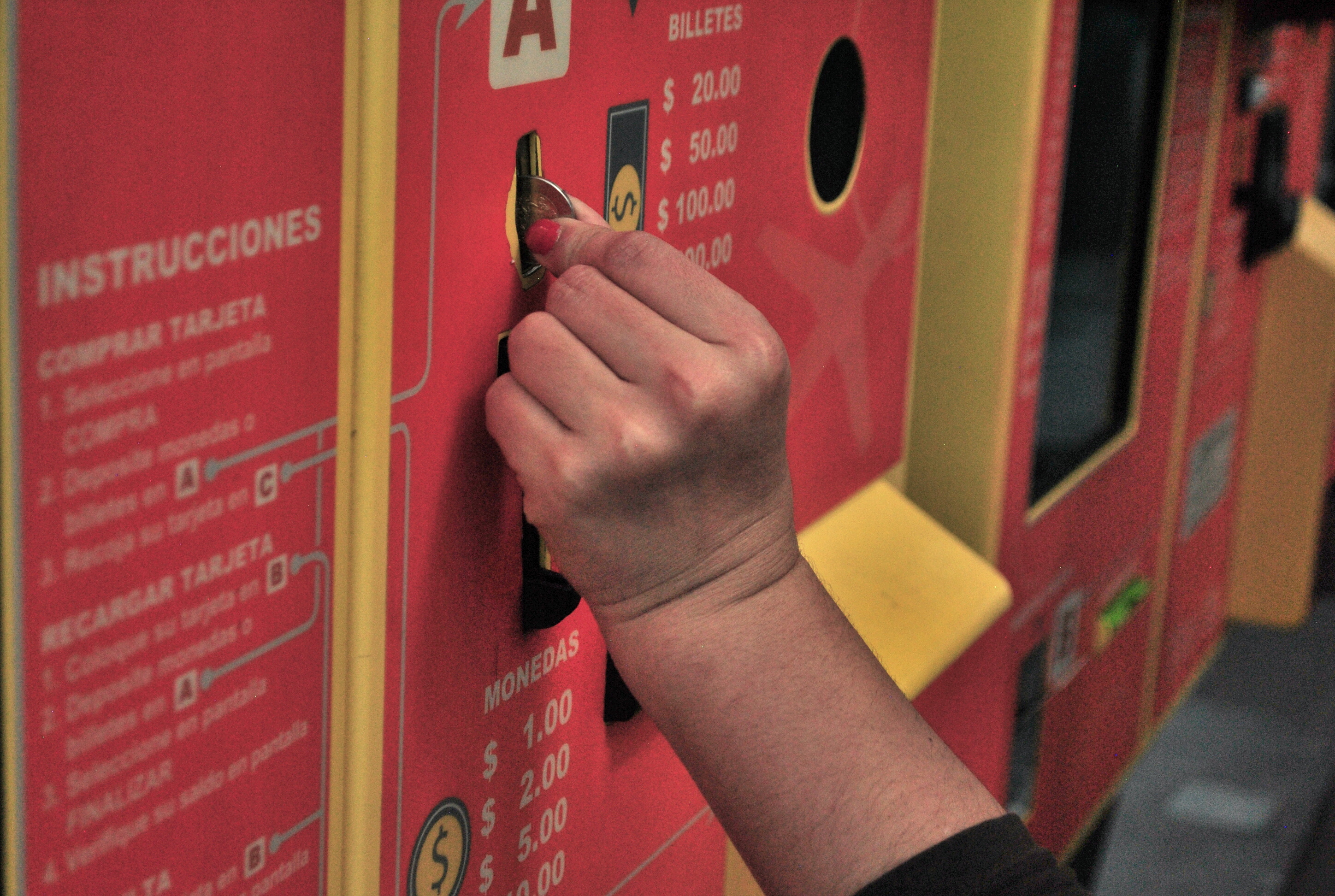 Automatic machine for the payment of the Metrobus system in Mexico City.